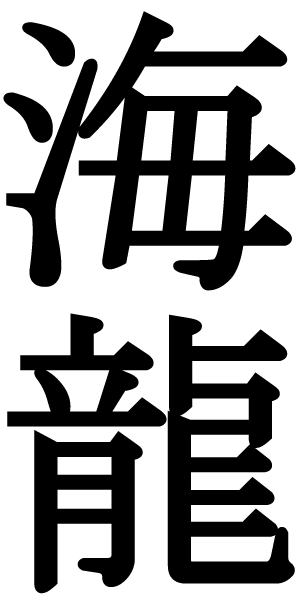 Characters for Kairyu, lit. "Sea dragon".